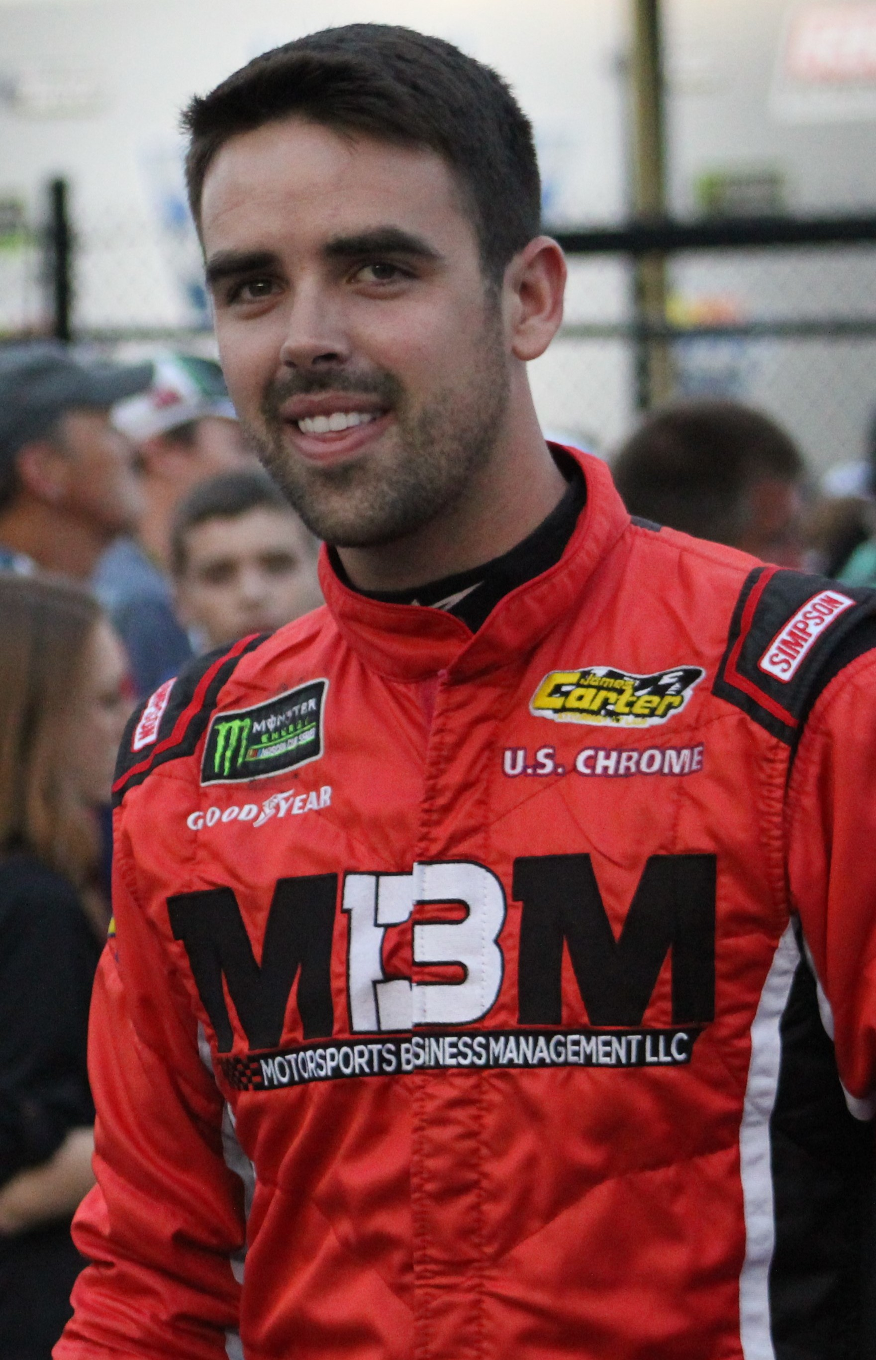 Timmy Hill at Richmond Raceway in 2018